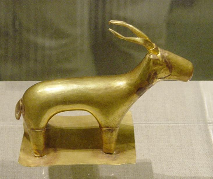 Late Cycladic (17th cent. BCE) gold ibex sculpture about 10cm long with lost wax cast feet and head, Repoussé body, from an excavation on Santorini